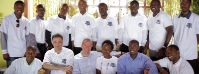 Haiti Project Commences - November 2010